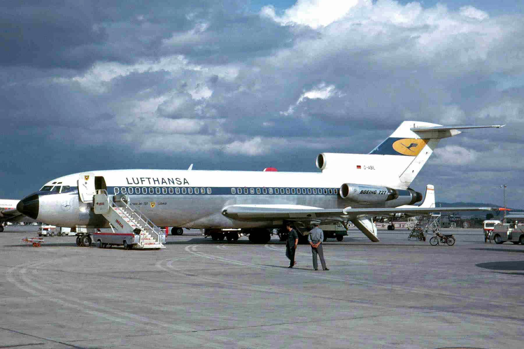 A picture of an airplane (name of it is on the file name).